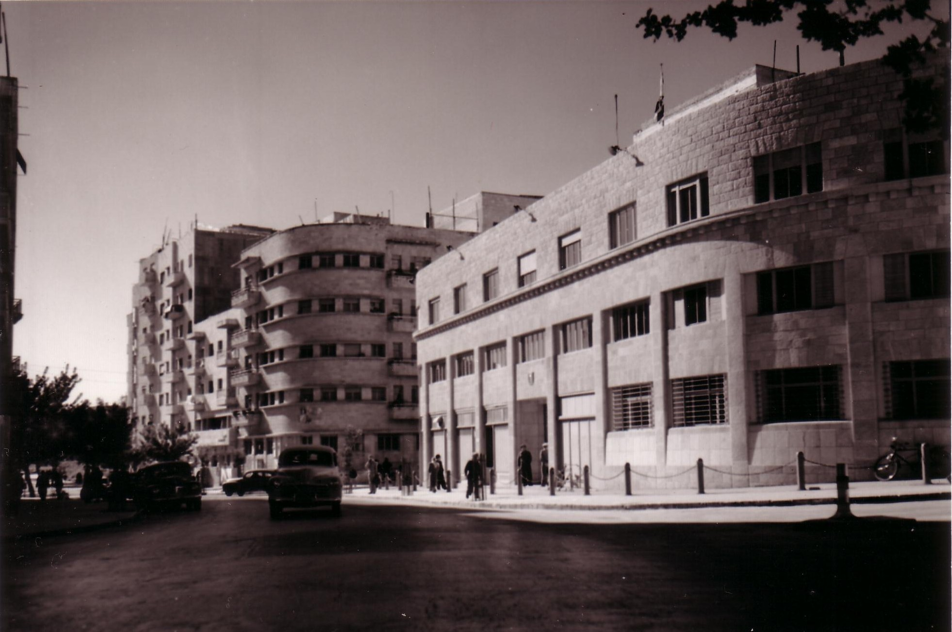 Frumin House, King George St., jerusalem, early 50s